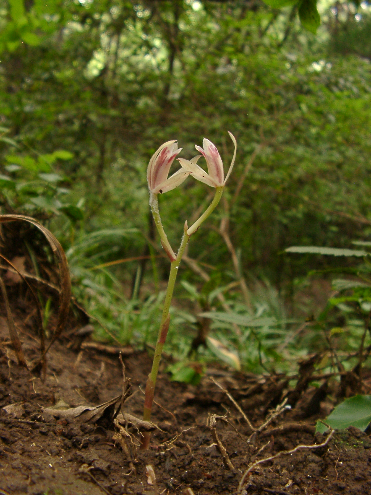 Cymbidium macrorhizon, Ooiso, Japan.